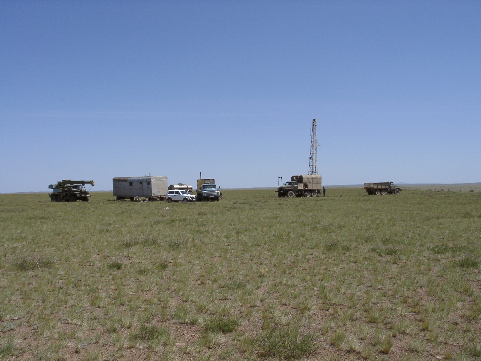 Author: Jürgen Höbig, Burkhard Heuel-Fabianek (Research Center Juelich (S)) Url: subject: drill rig on the Semipalatinsk Test Site (STS) in the steppe region of Kazakhstan